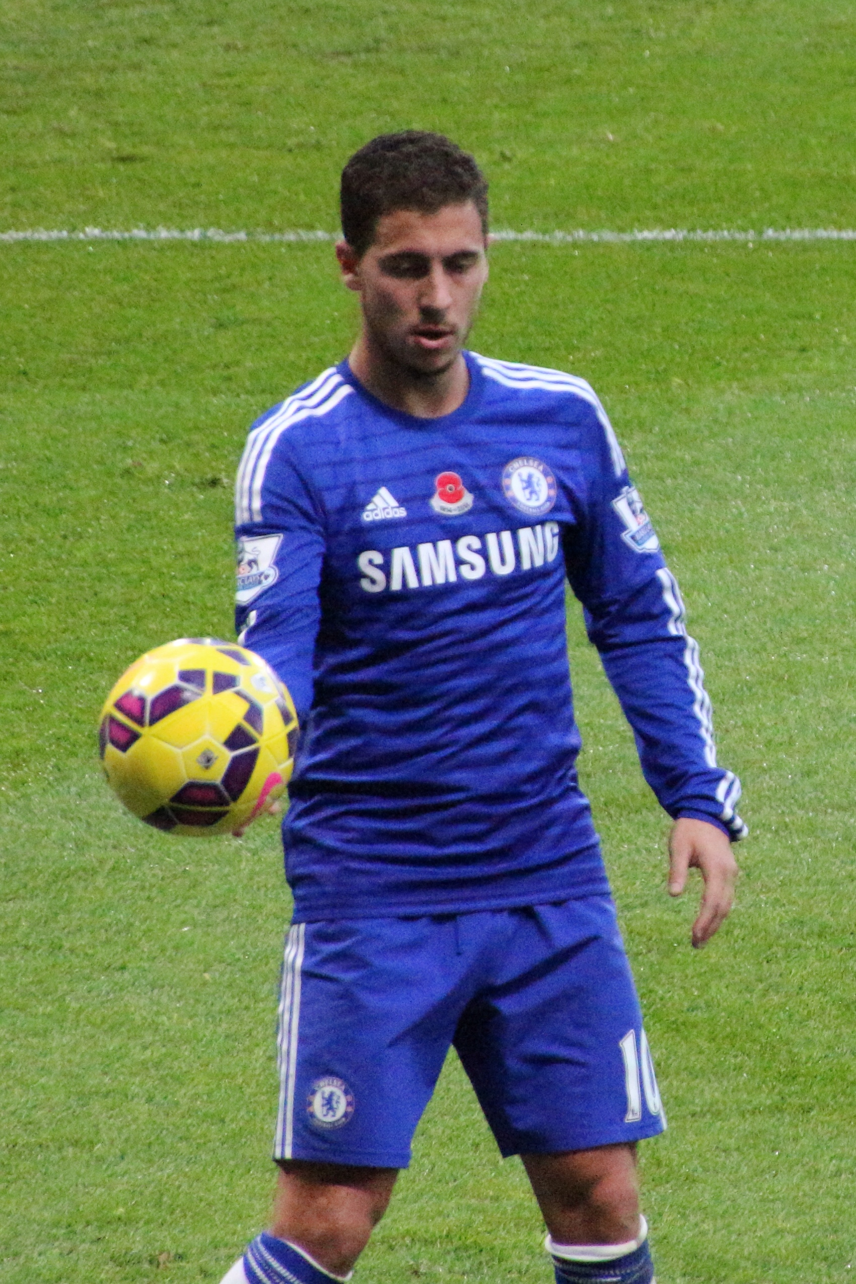 Chelsea 2 QPR 1 Premier League match between Chelsea and Queens Park Rangers at Stamford Bridge on 1 November 2014.